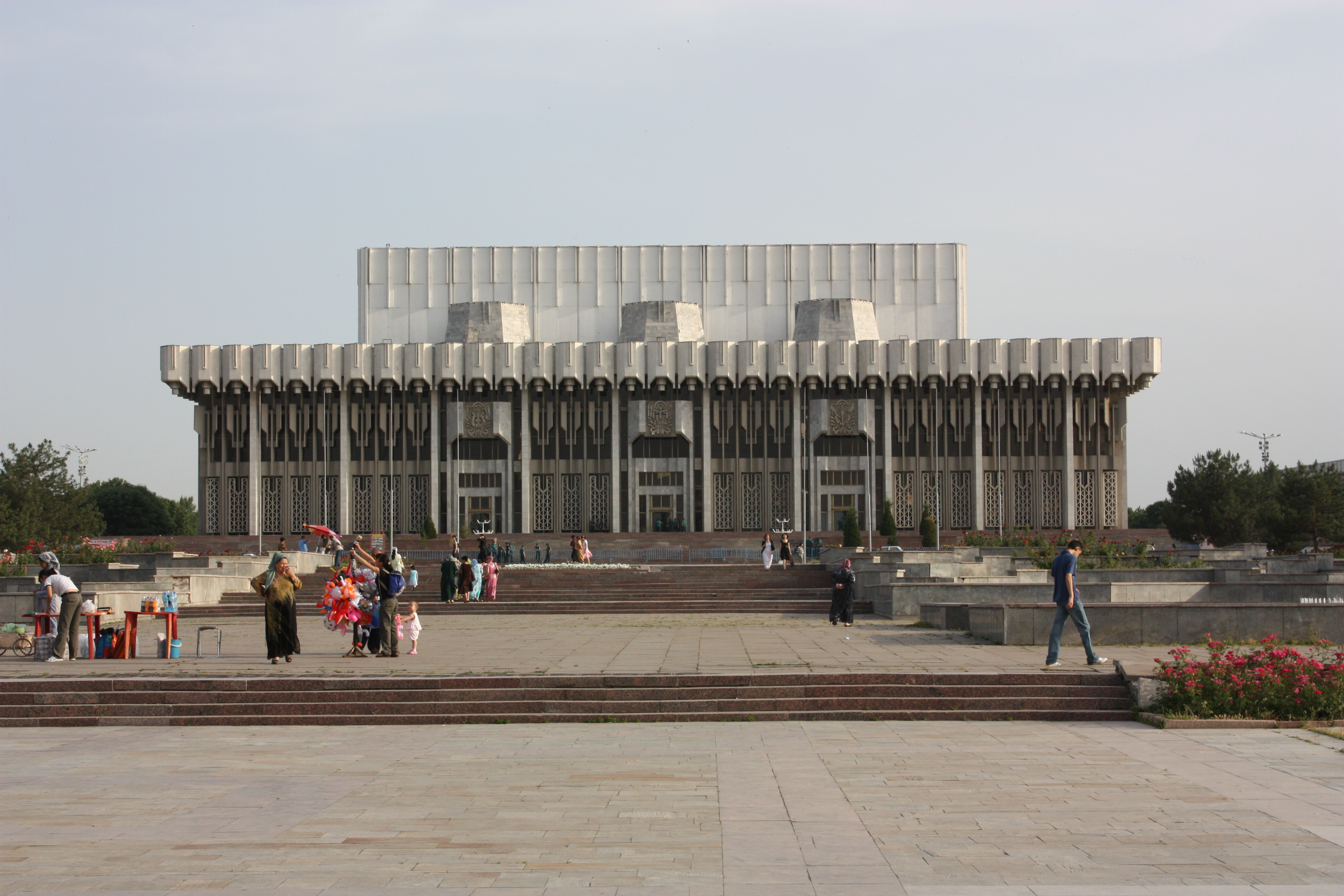 Tashkent, Peoples' Friendship Palace